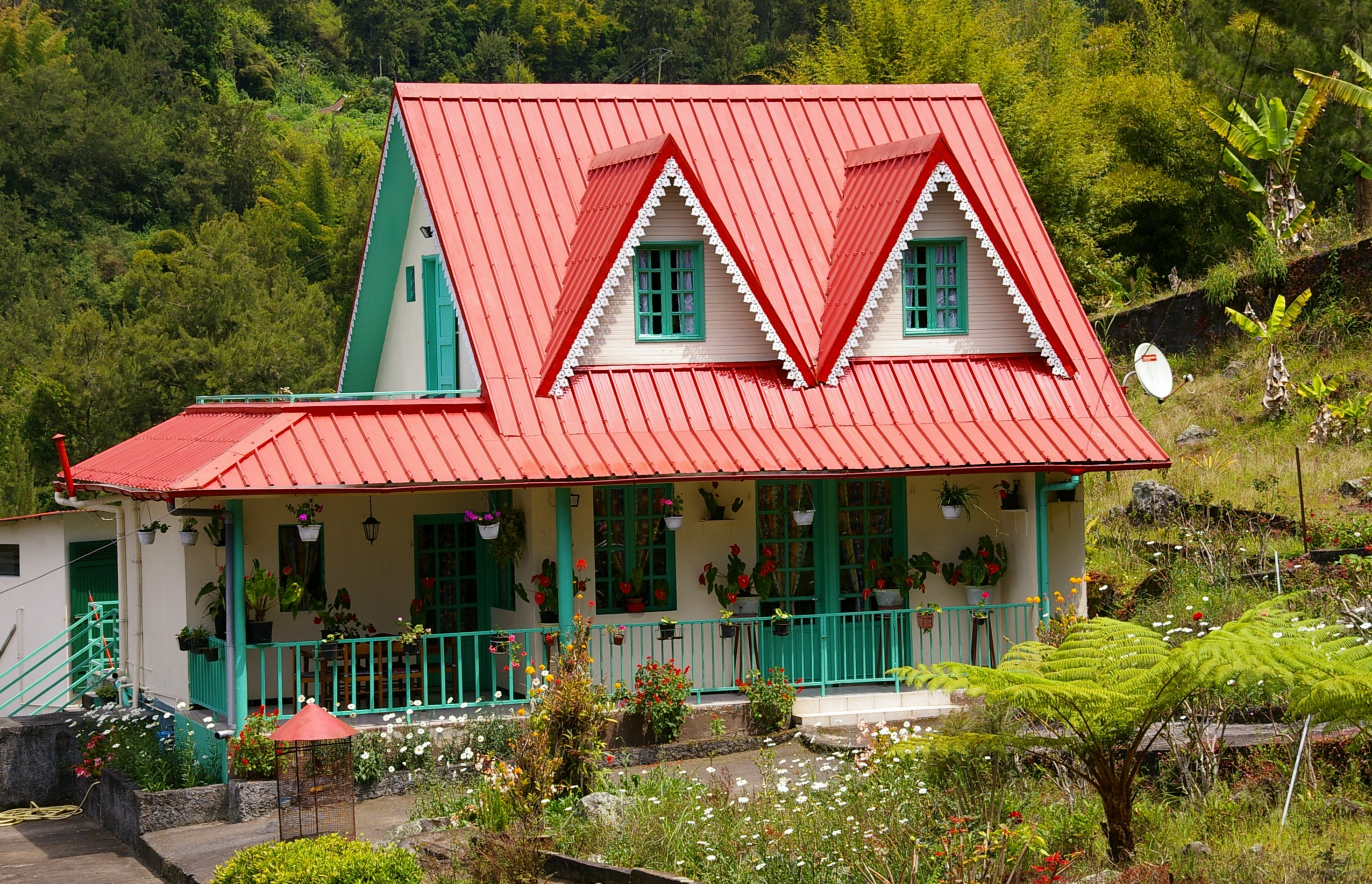 House in Hell-Bourg, Réunion island.